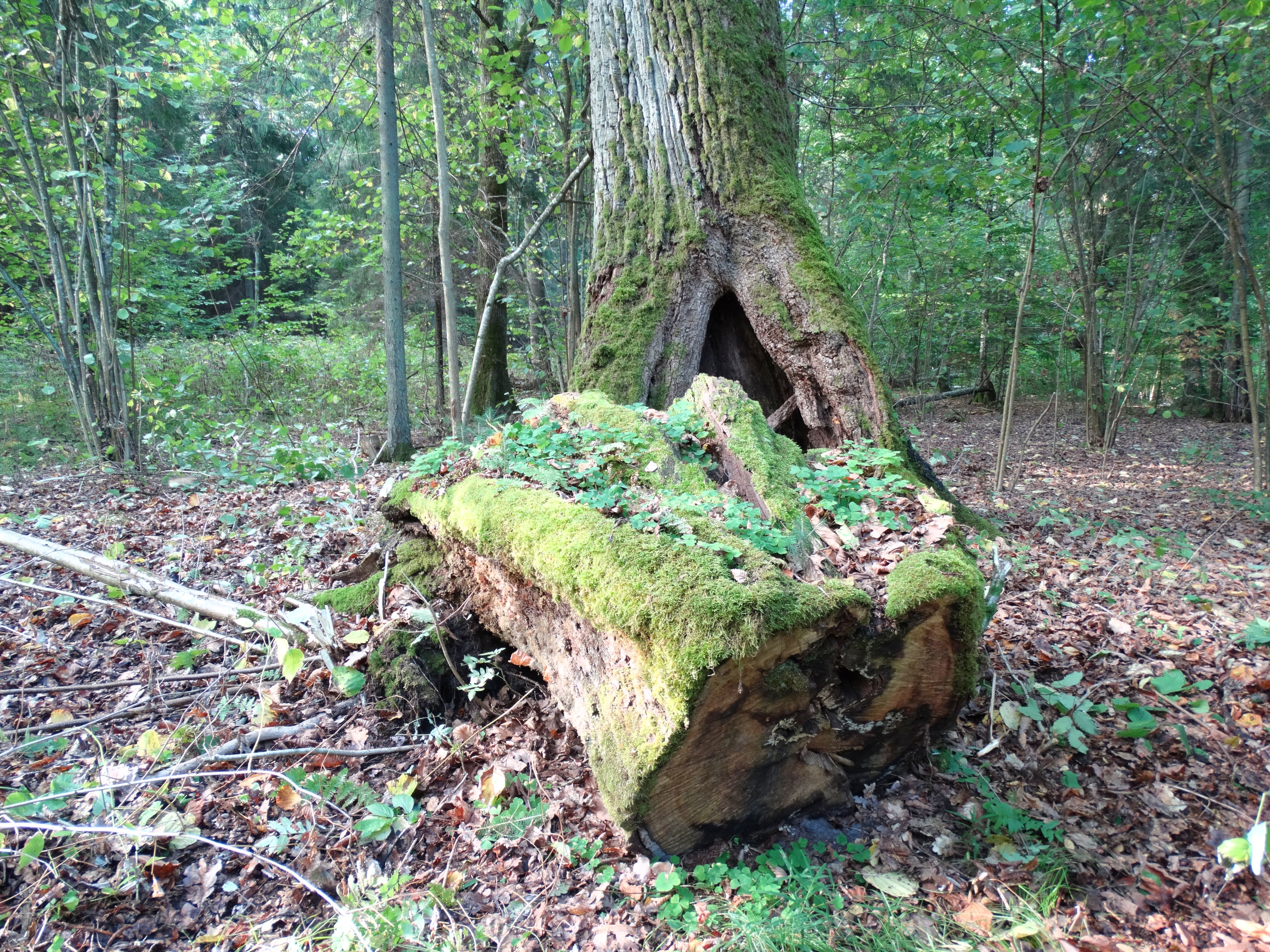 Oak in Rumšiškės forest, Kaišiadorys district, Lithuania